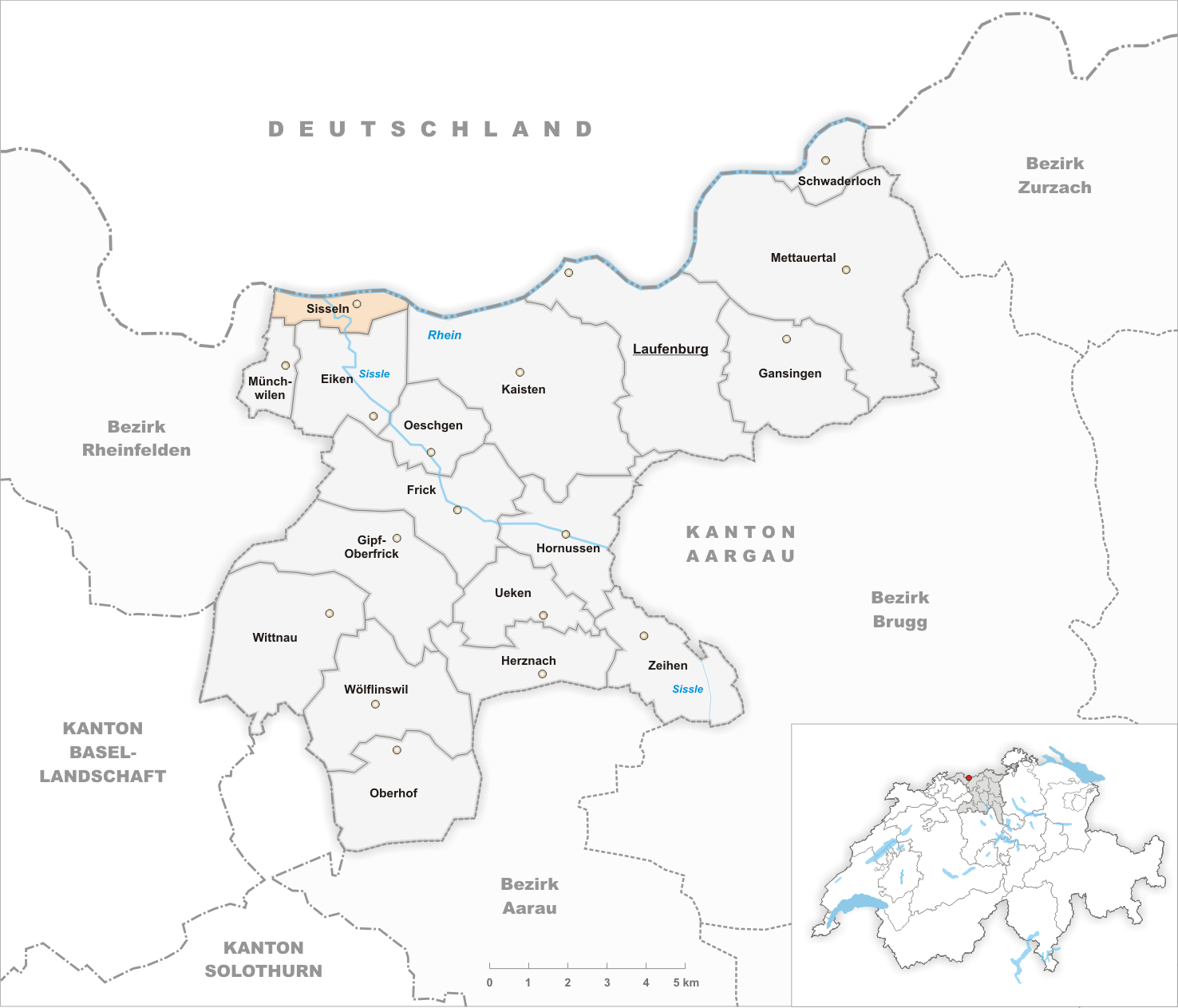 Municipality Sisseln